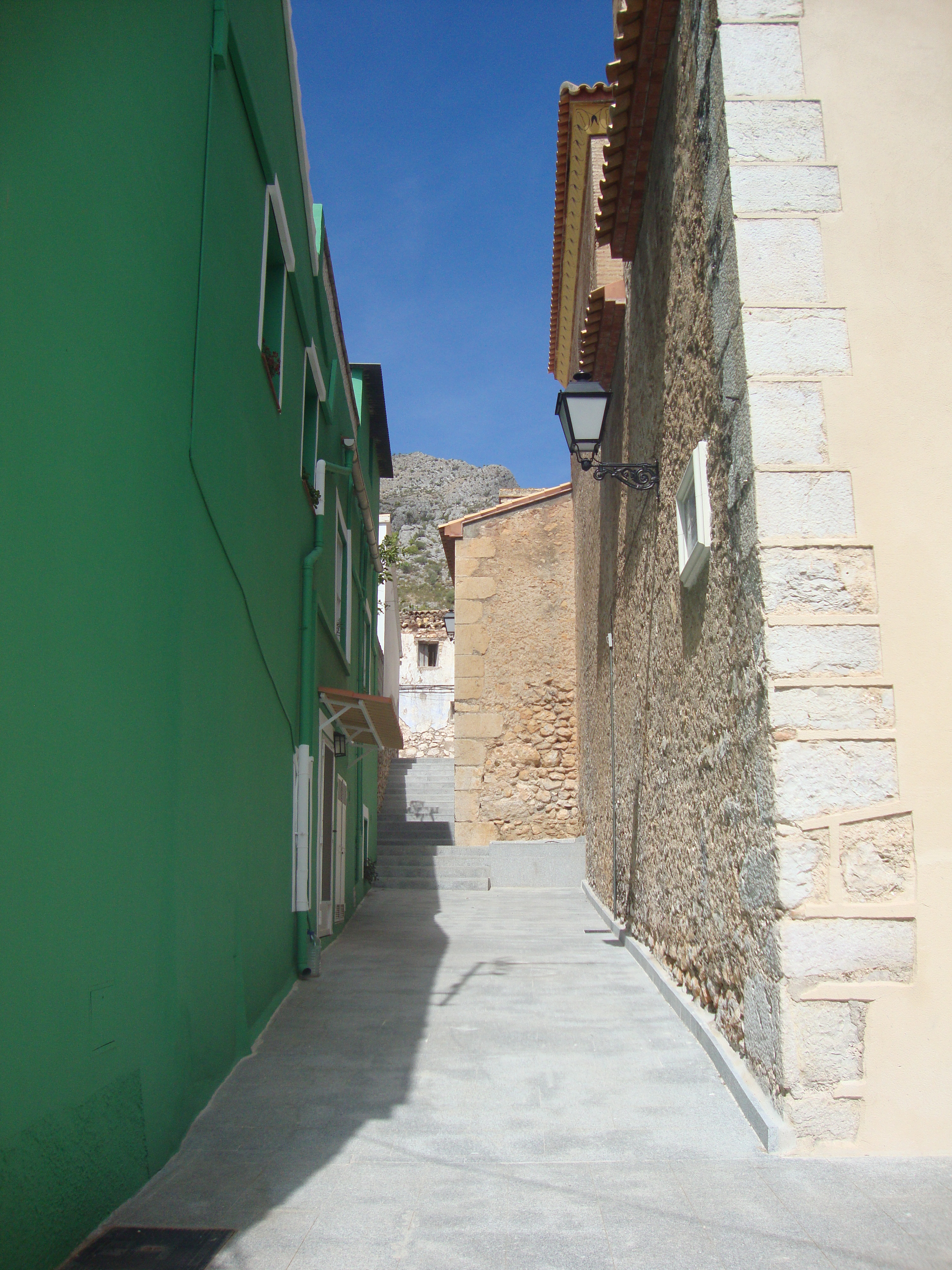 Vista de la calle de Tormos, Alcalde-President José Perelló Torrens